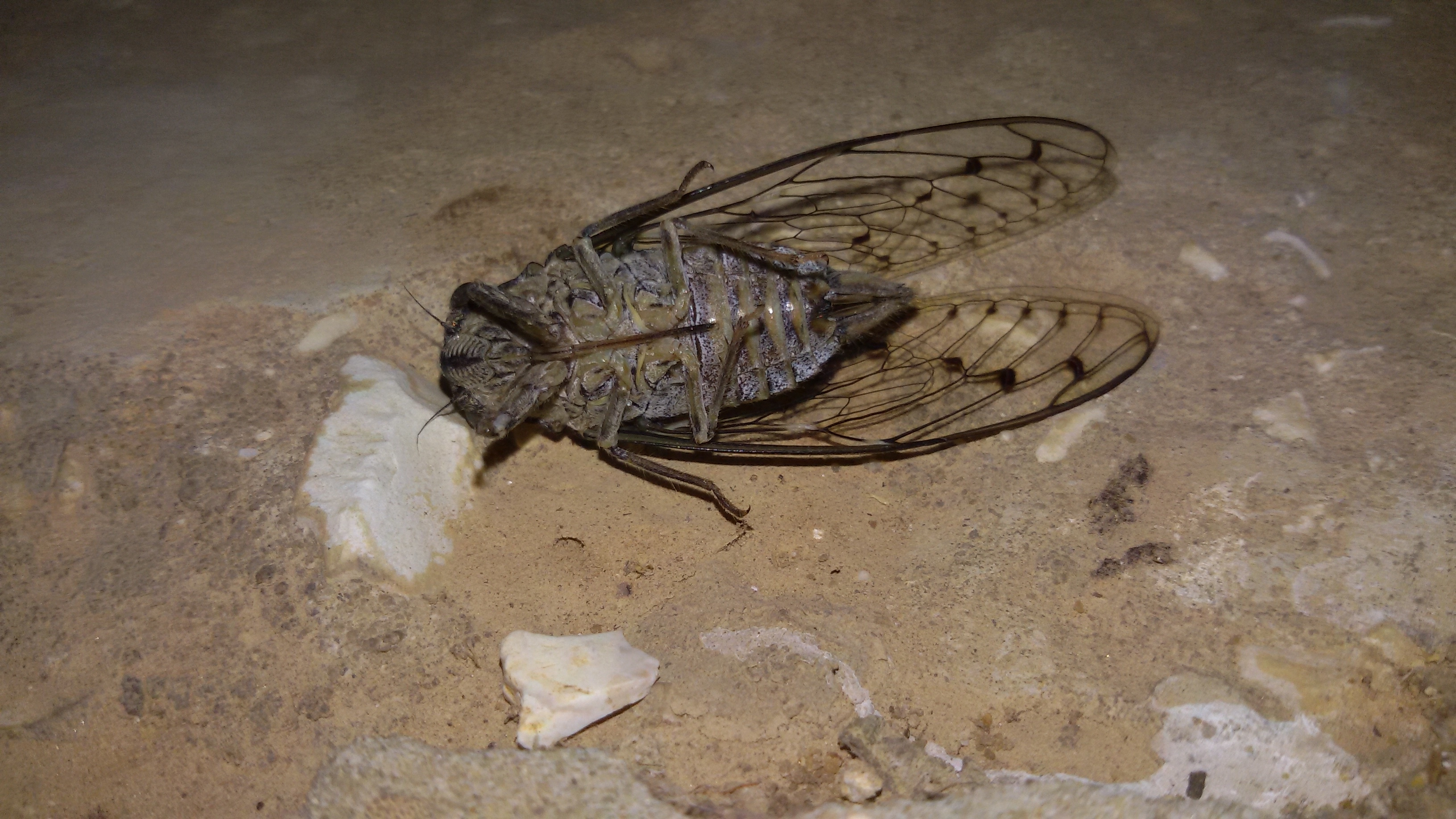 Cicada orni, male. About 3 cm body length. Ventral view. Picture taken in Ateret.